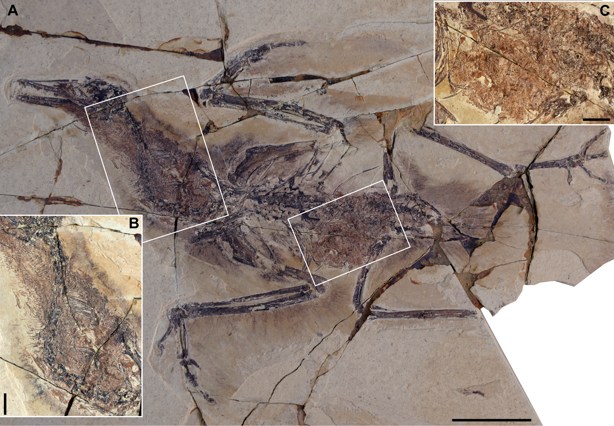 Yanornis STM9-15 preserving whole fish in the crop and macerated fish bones in the ventriculus: (A) full slab, scale bar equals five cm; (B) detail of the crop, scale bar equals one cm; (C) detail of the ventriculus, scale bar equals one mm.